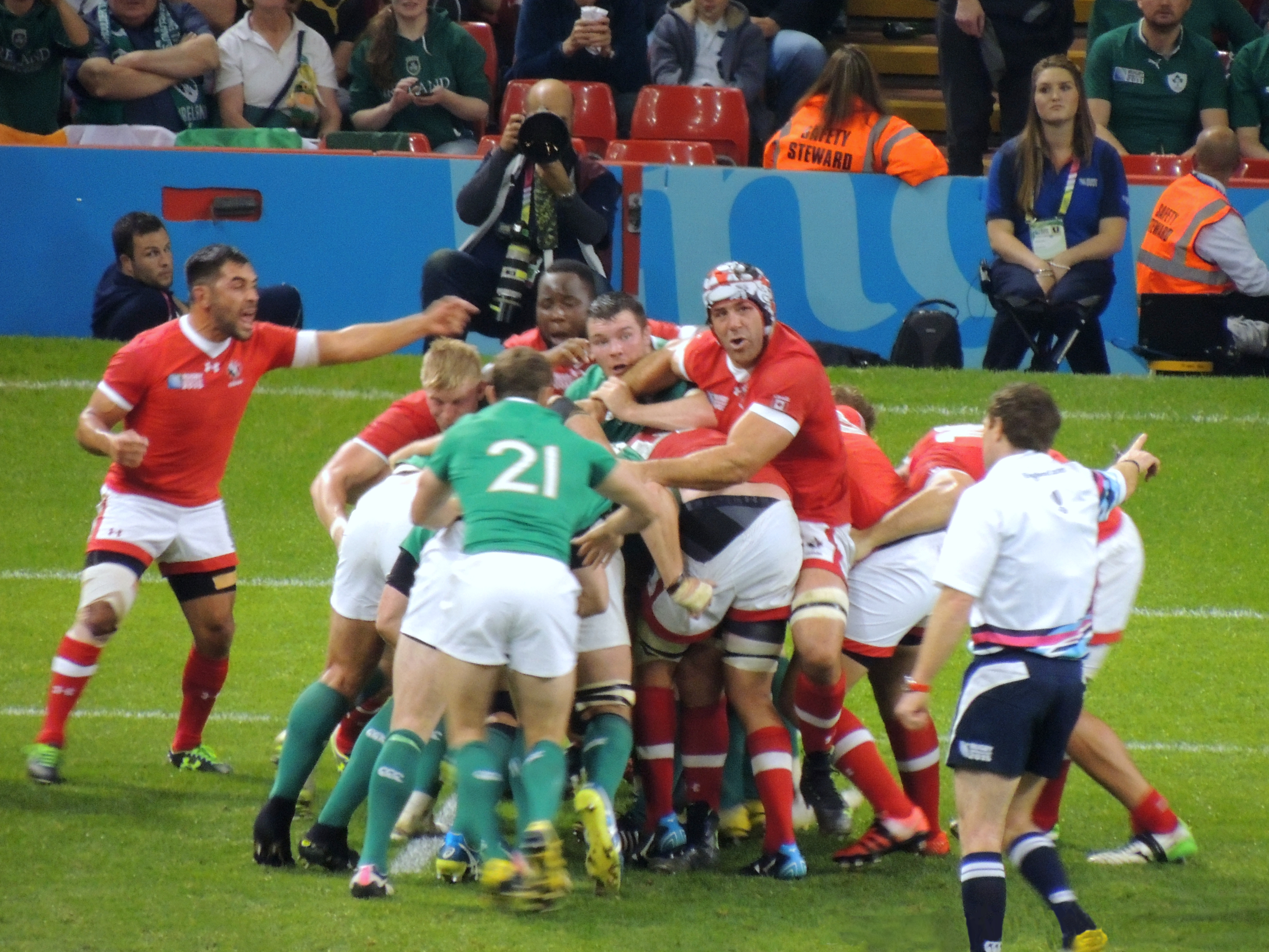 Canadian rugby union player Jamie Cudmore playing in 2015 Rugby World Cup game Ireland vs Canada at Millennium Stadium in Cardiff.